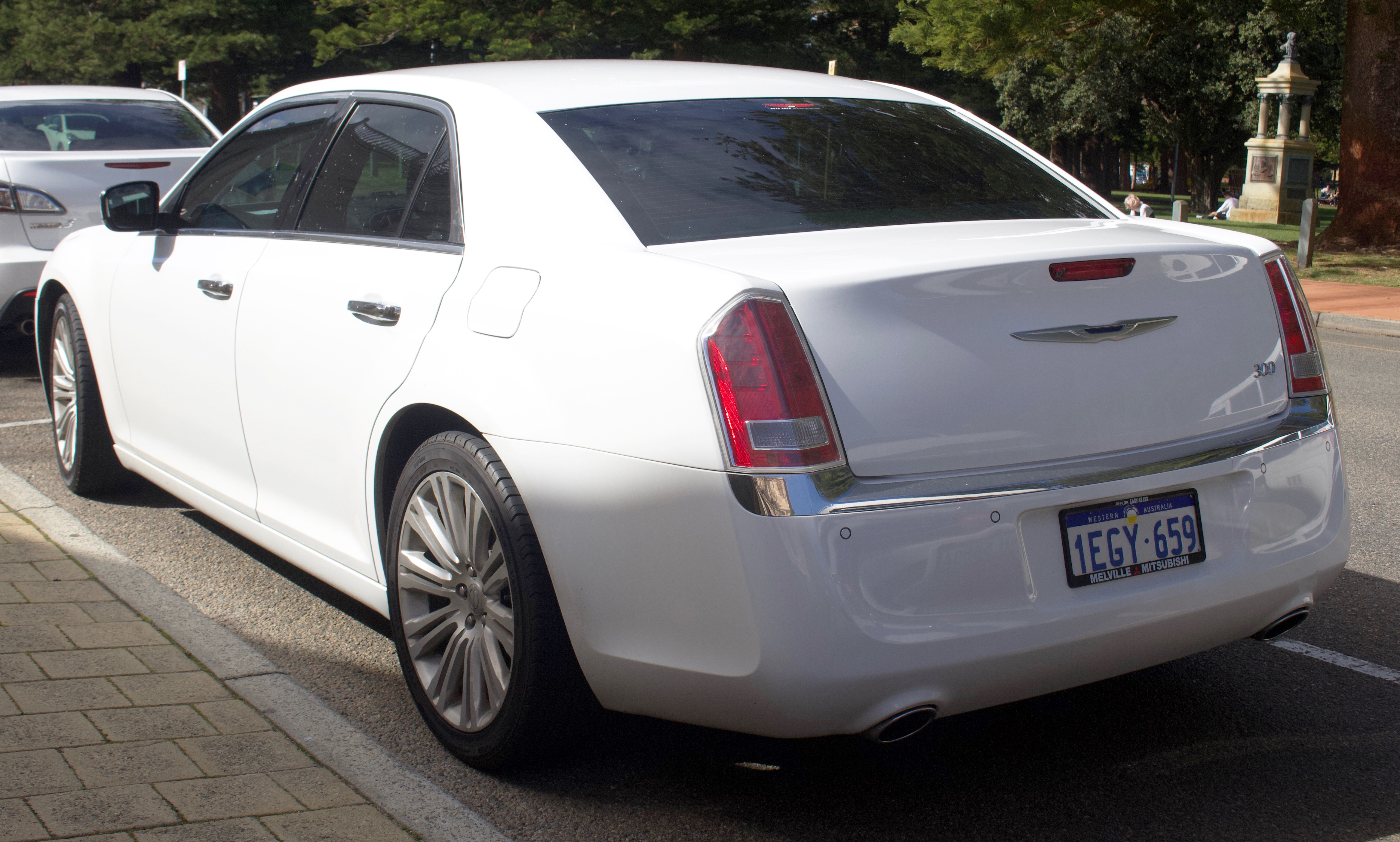 2013 Chrysler 300 (LX MY13) Limited sedan. Photographed in Fremantle, Western Australia, Australia.